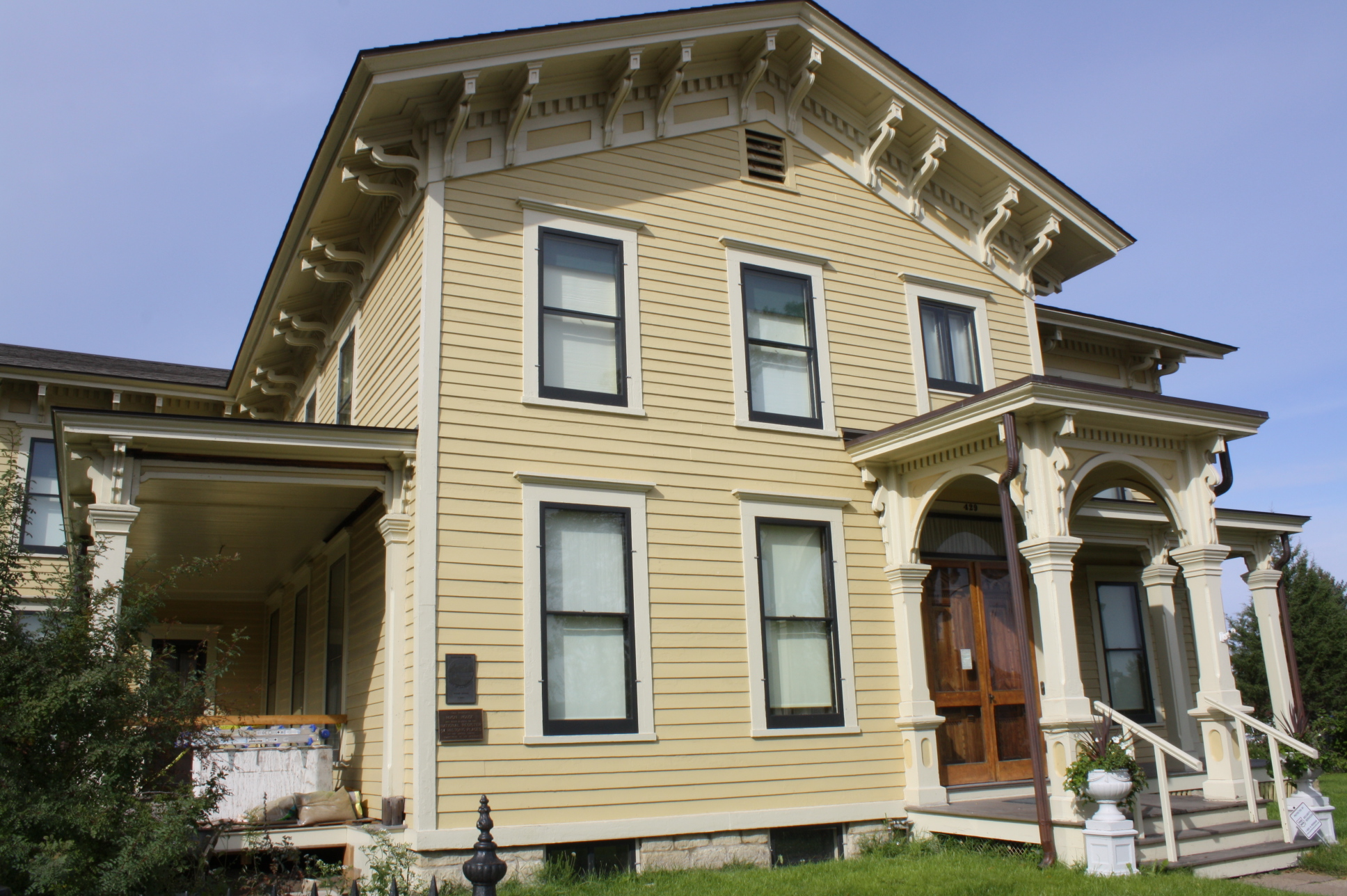 Looking at the front of the Gideon C. Hixon House in downtown La Crosse, Wisconsin, listed on the National Register of Historic Places.